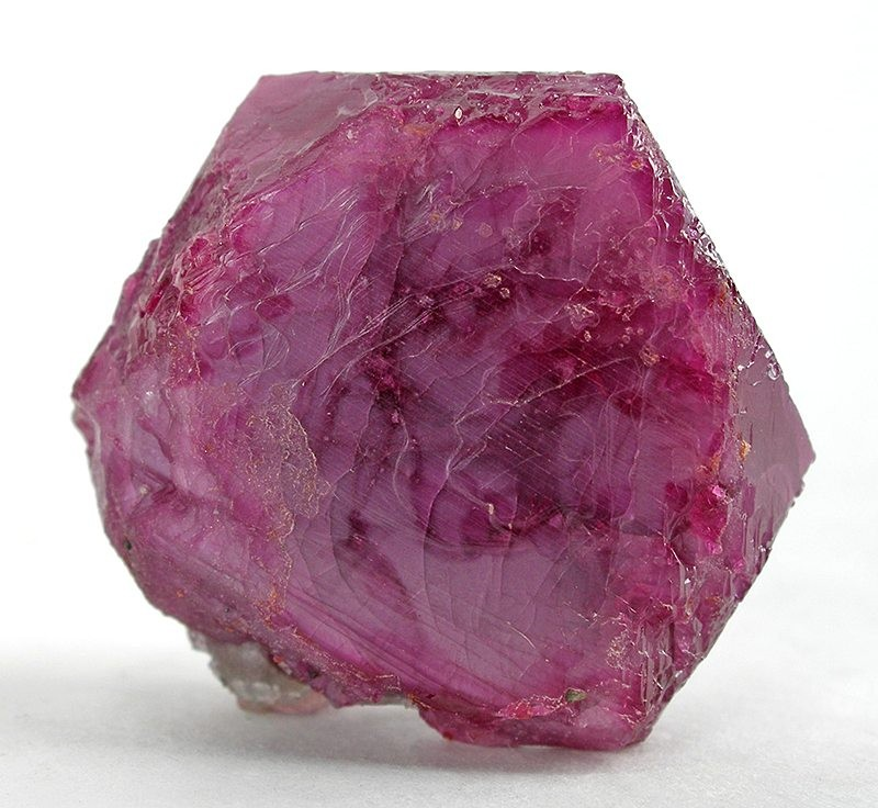 Corundum (Var.: Ruby) Locality: Mogok, Pyin Oo Lwin District, Mandalay Division, Burma (Myanmar) (Locality at ) This is a superb single crystal of ruby, unusually well formed in hexagonal shape with waxy lustre. It probably has considerable value as carving rough because of the natural chatoyance, in which the color shifts between more red and more lavender in different lighting. It is opaque, but has zones of translucency. 3.5 x 3.3 x 1.4 cm